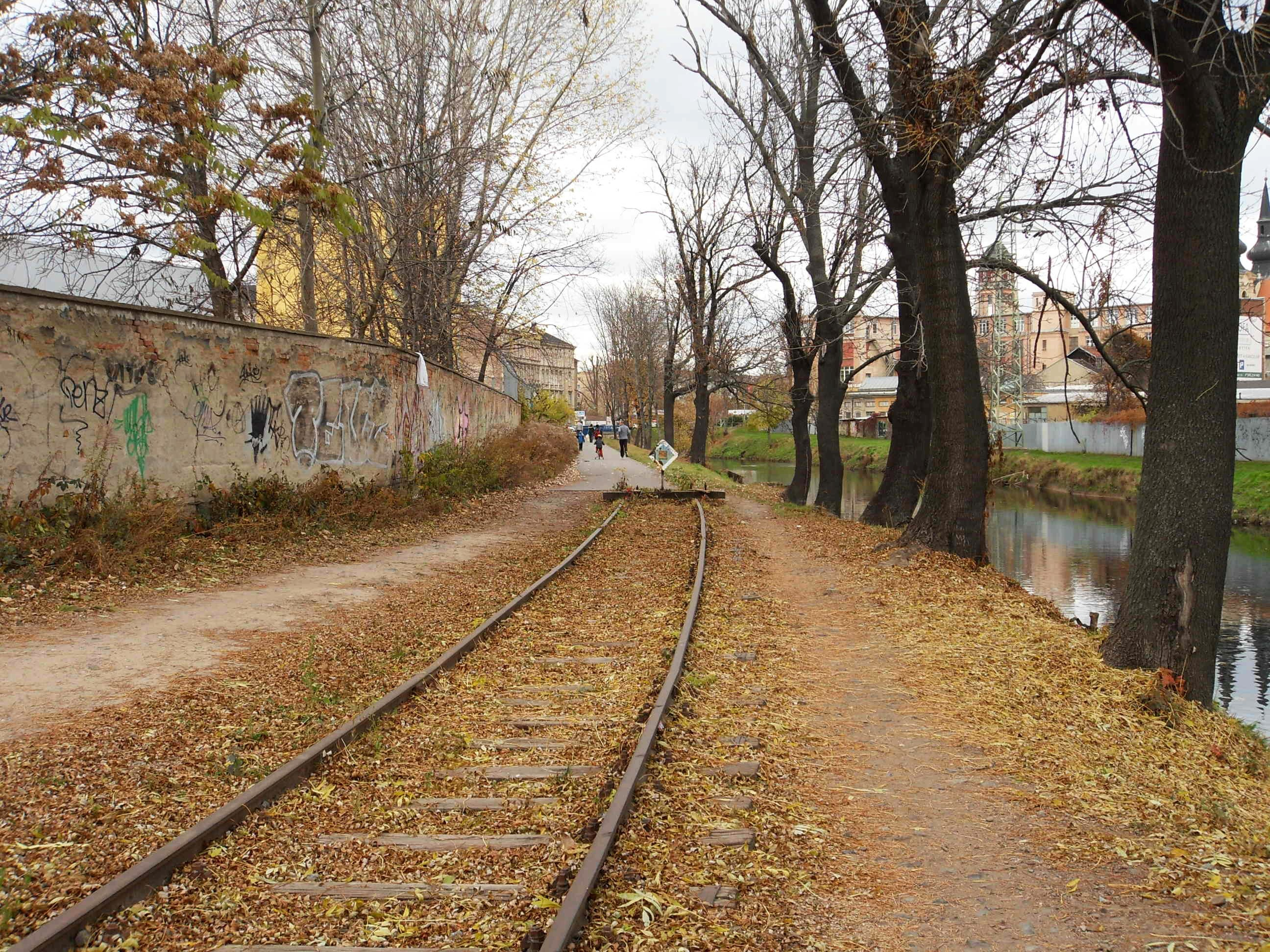 Svitava coastal rail track (industrial siding, former rail track Brno - Tišnov), Brno, Czech Republic